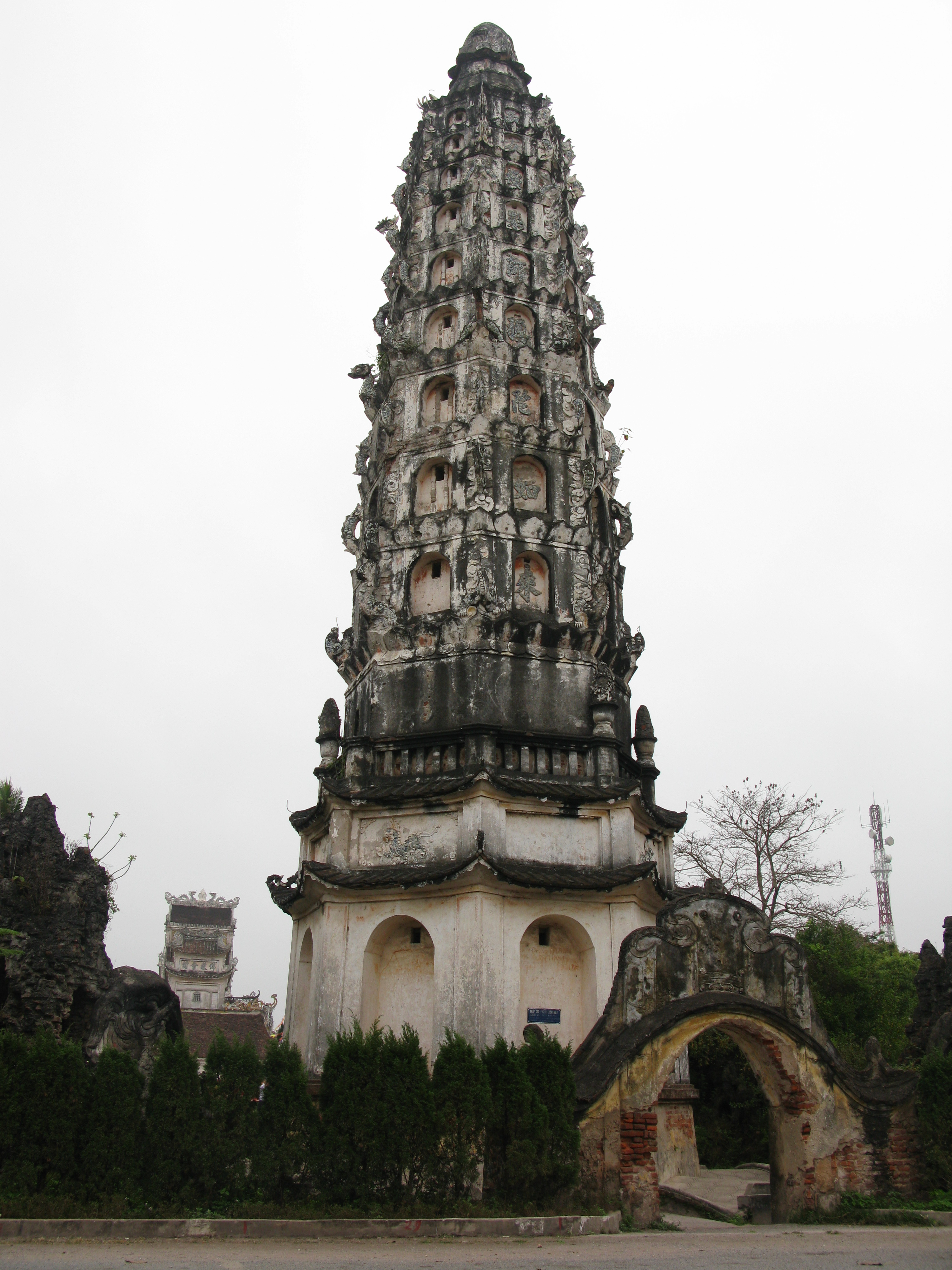 Cửu phẩm liên hoa tower in Cổ Lễ pagoda, Cổ Lễ township, Trực Ninh district, Nam Định province, Việt Nam